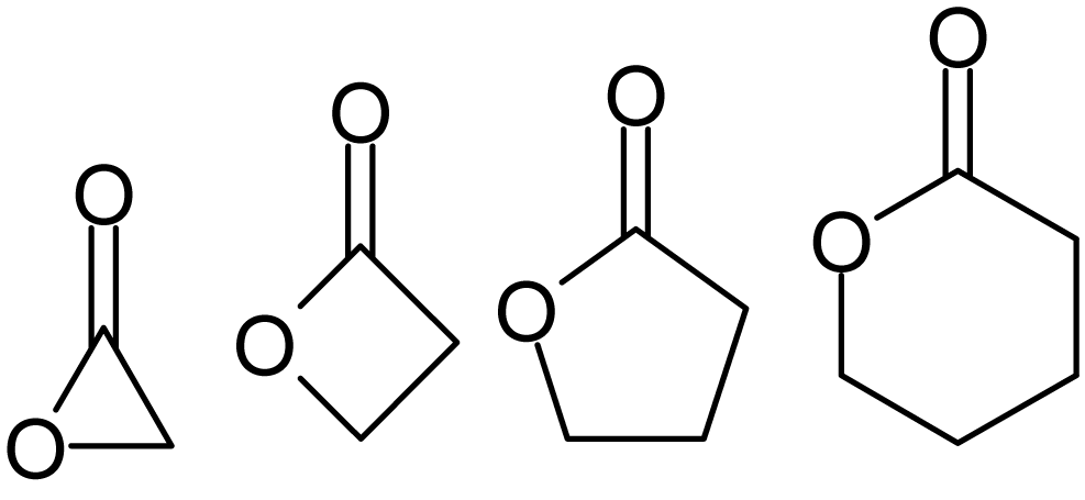 Different types of lactones (alpha, beta, gamma, delta)